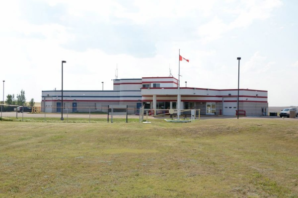 The US-Canada joint border inspection station at Turner, MT / Climax SK